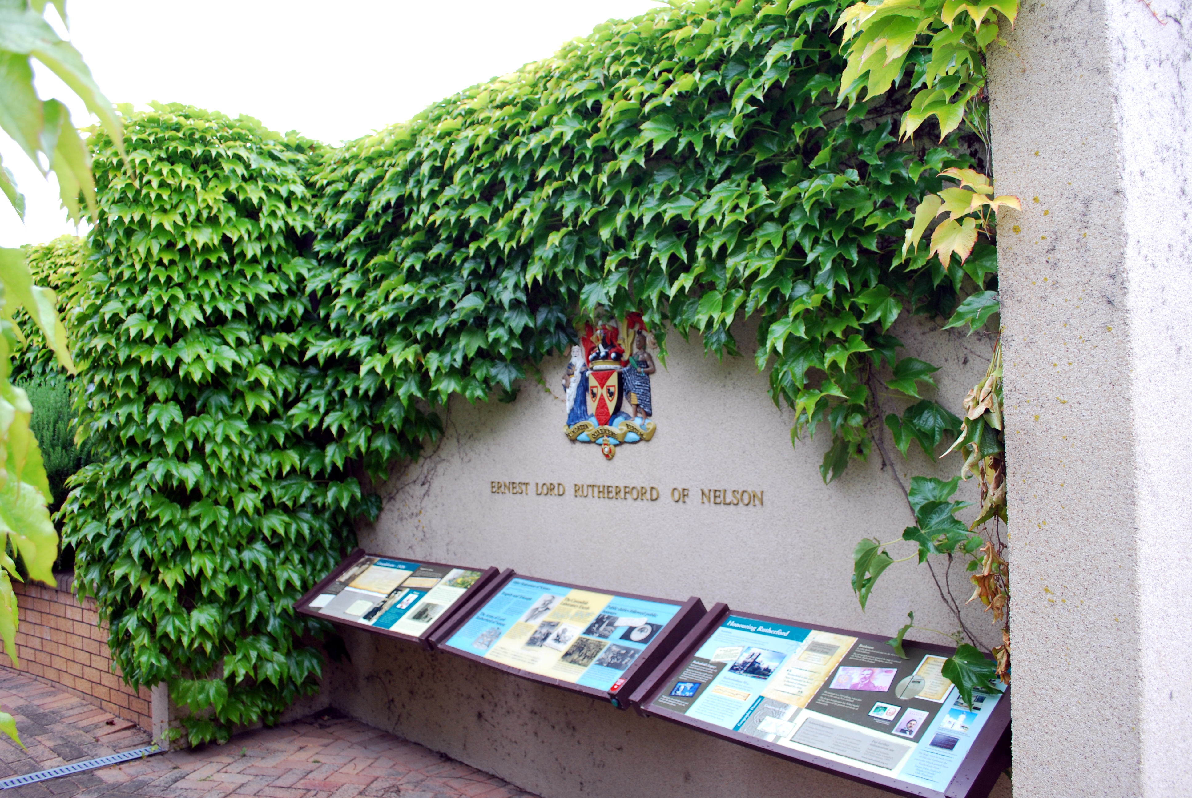 Monument recognising the birthplace of Ernest Rutherford at Brightwater, New Zealand